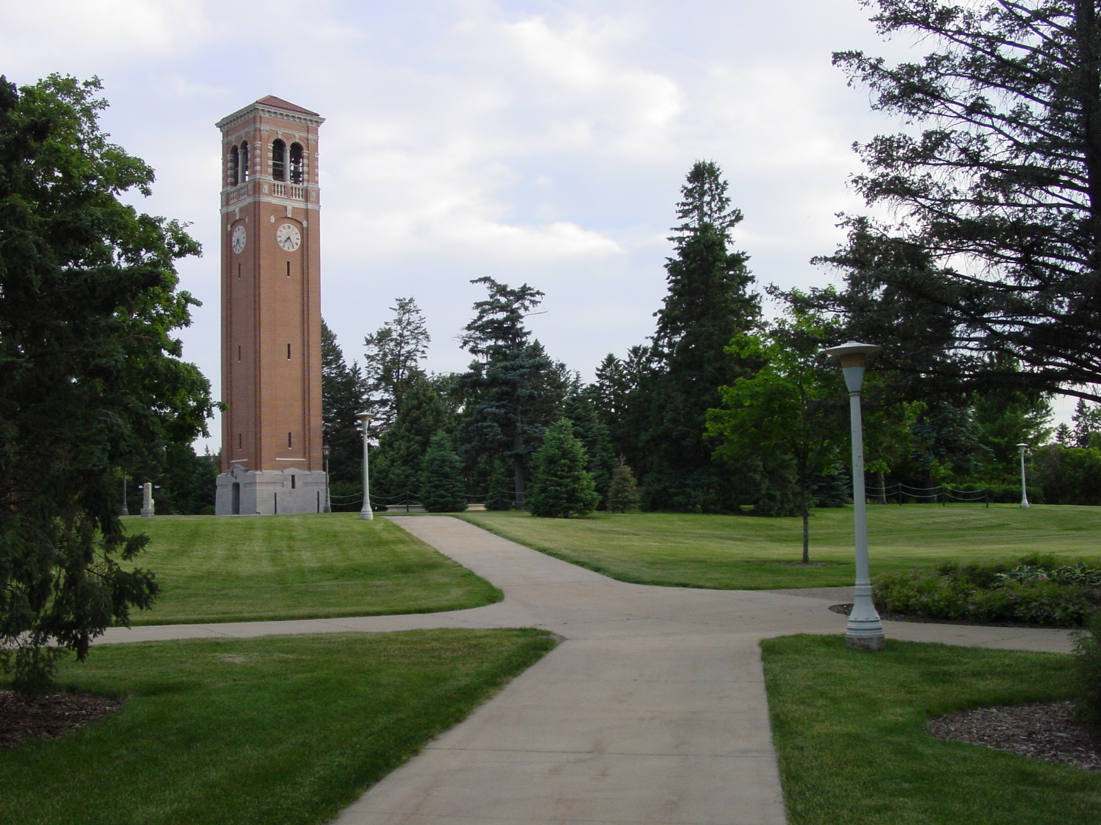 The Campanile at University of Northern Iowa. Taken by MadMaxMarchHare.